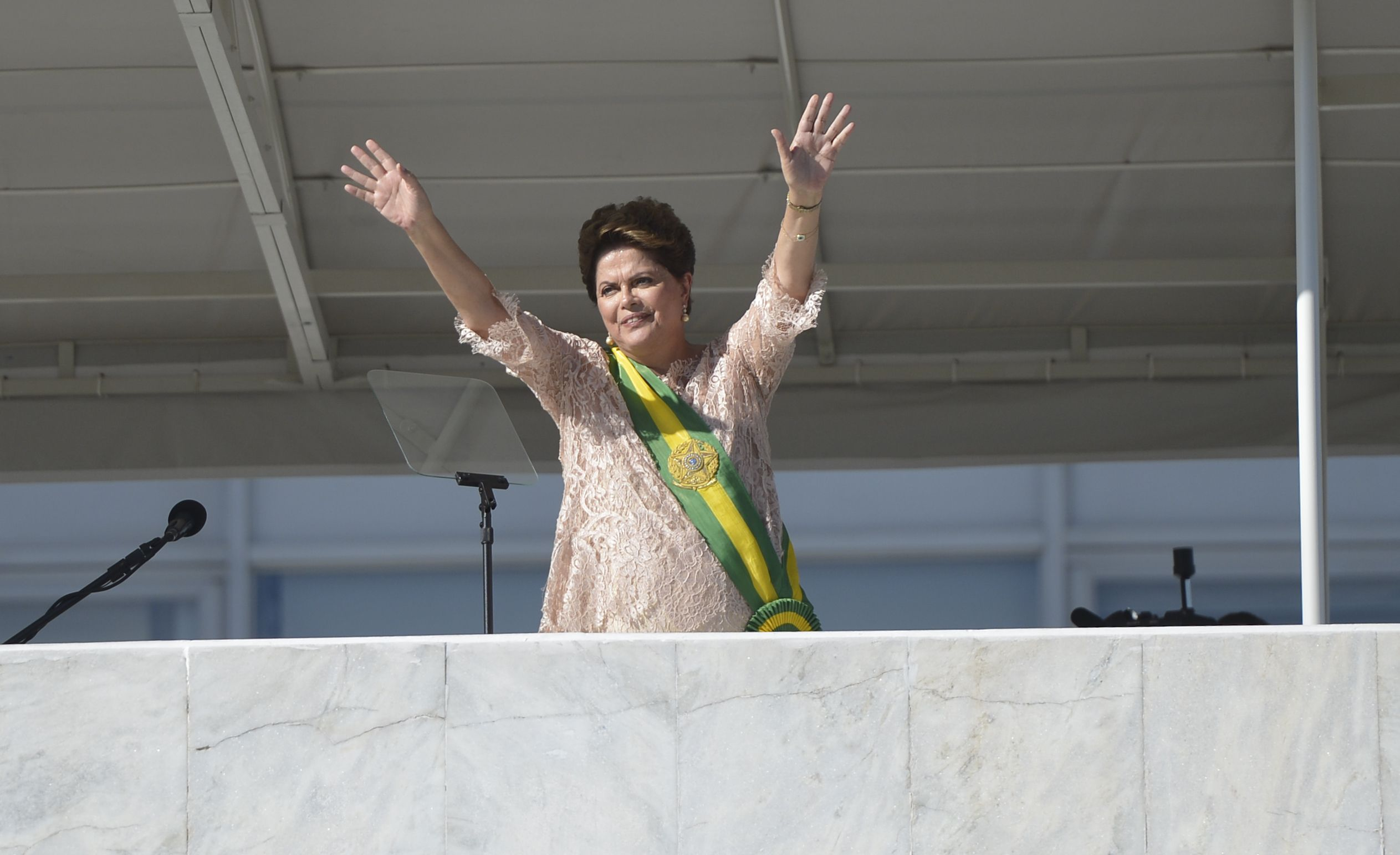 President Dilma Rousseff takes office in 2015 in Brazil.